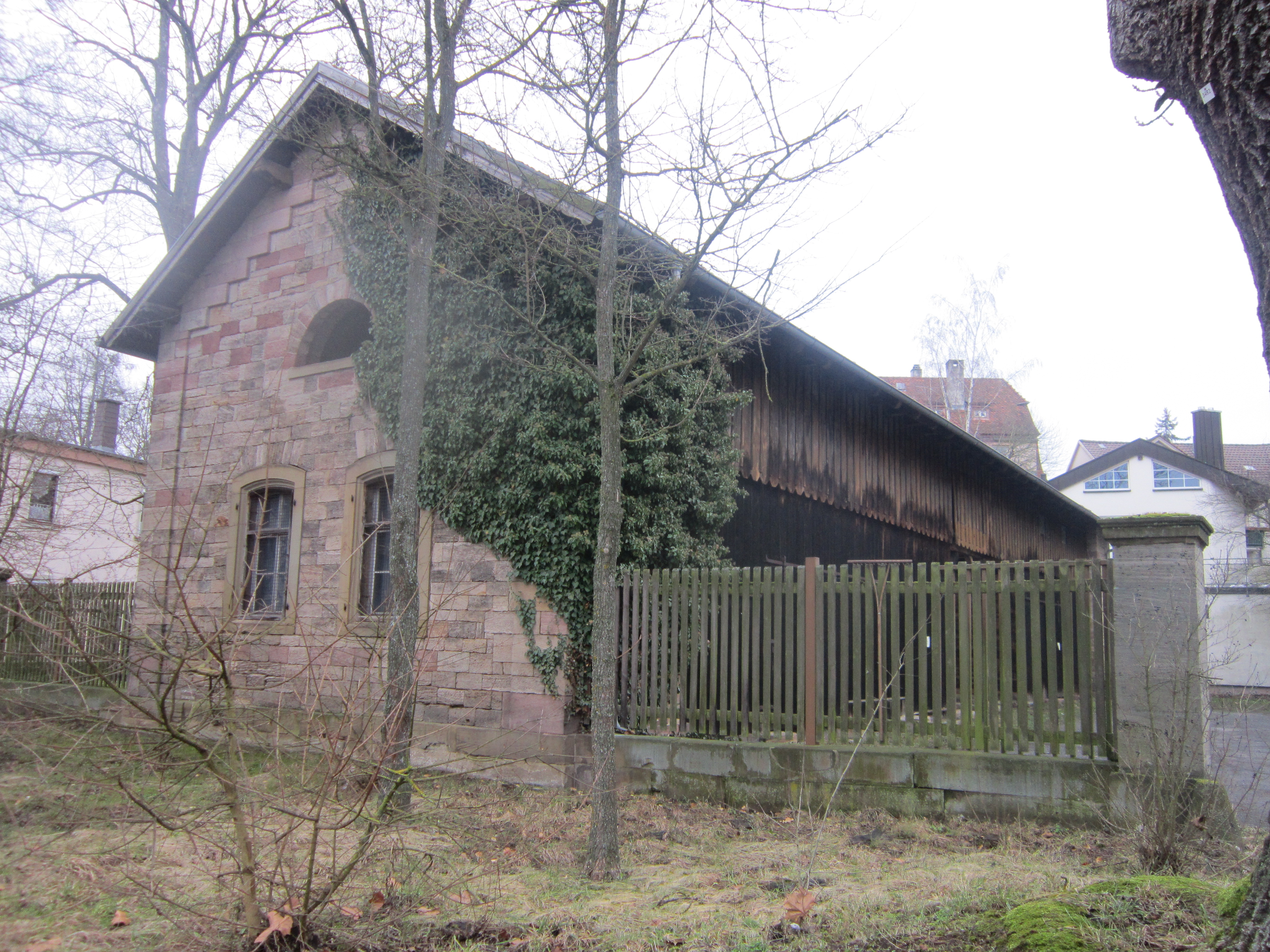 Building in the German spa town of Bad Kissingen in Lower Franconia (Bavaria) (Address: Salinenstraße 8).